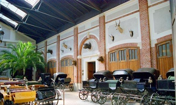 Lubomirski Castle in Łancut in Poland